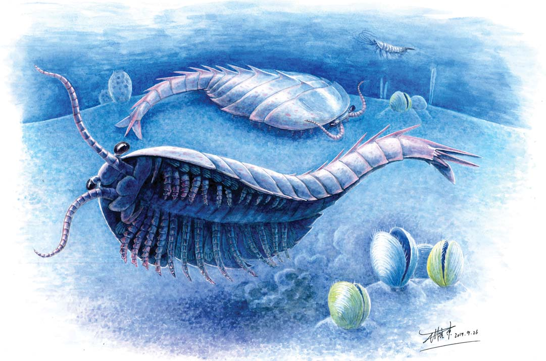 Artistic reconstruction of Guangweicaris spinatus Luo, Fu, and Hu, 2007 from the lower Cambrian Guanshan Biota, China. Illustration by Xiaodong Wang (Yunnan Zhishui Corporation, Kunming, China).